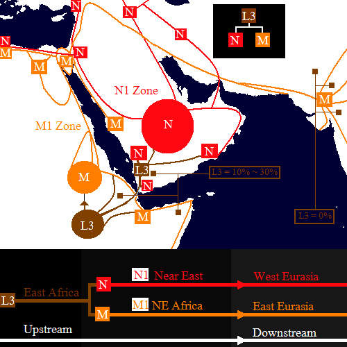 Map of the route of distribution of M1, one of the human mitochondrial DNA haplogroups